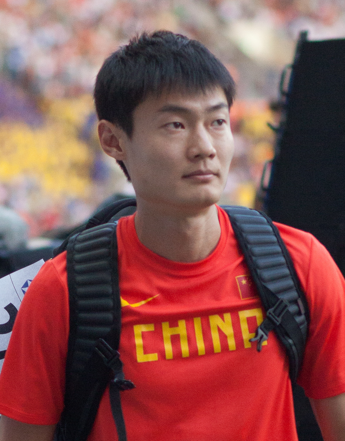 Zhang Peimeng during 2013 World Championships in Athletics in Moscow.